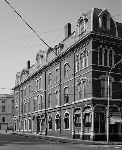 ME-136-2 Southwest Side, from the South.